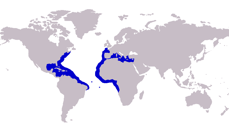 Distribution of blue runner, Caranx crysos using map based on GDFL image